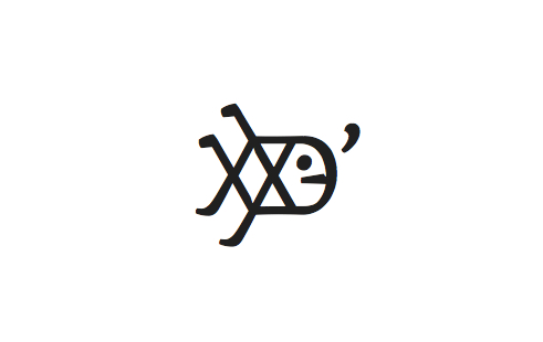 Logo of the book series Samica (Designer Philipp von Rohden)